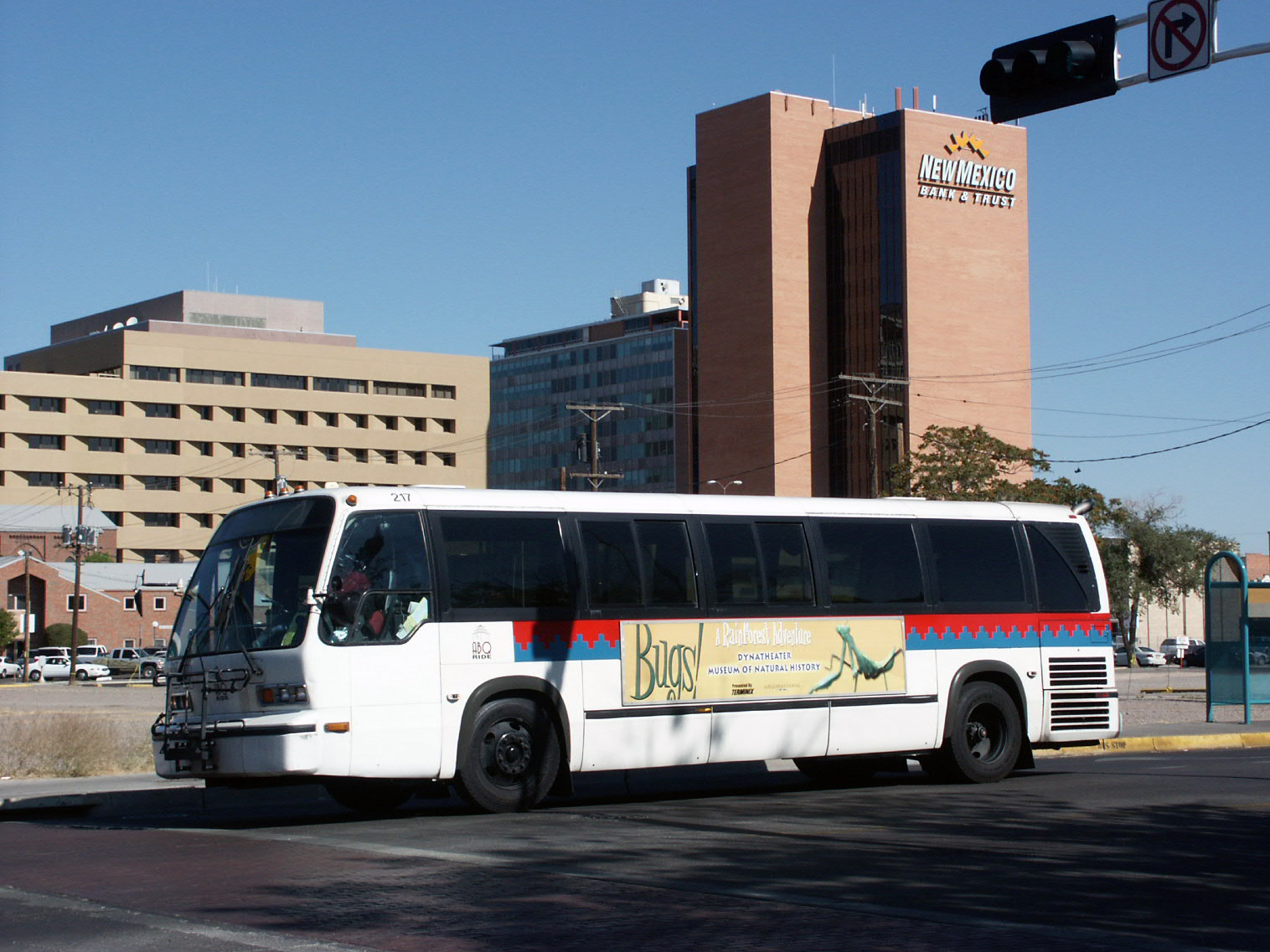 ABQ RIDE 200-series TMC RTS T70206 city bus in Albuquerque, New Mexico, USA